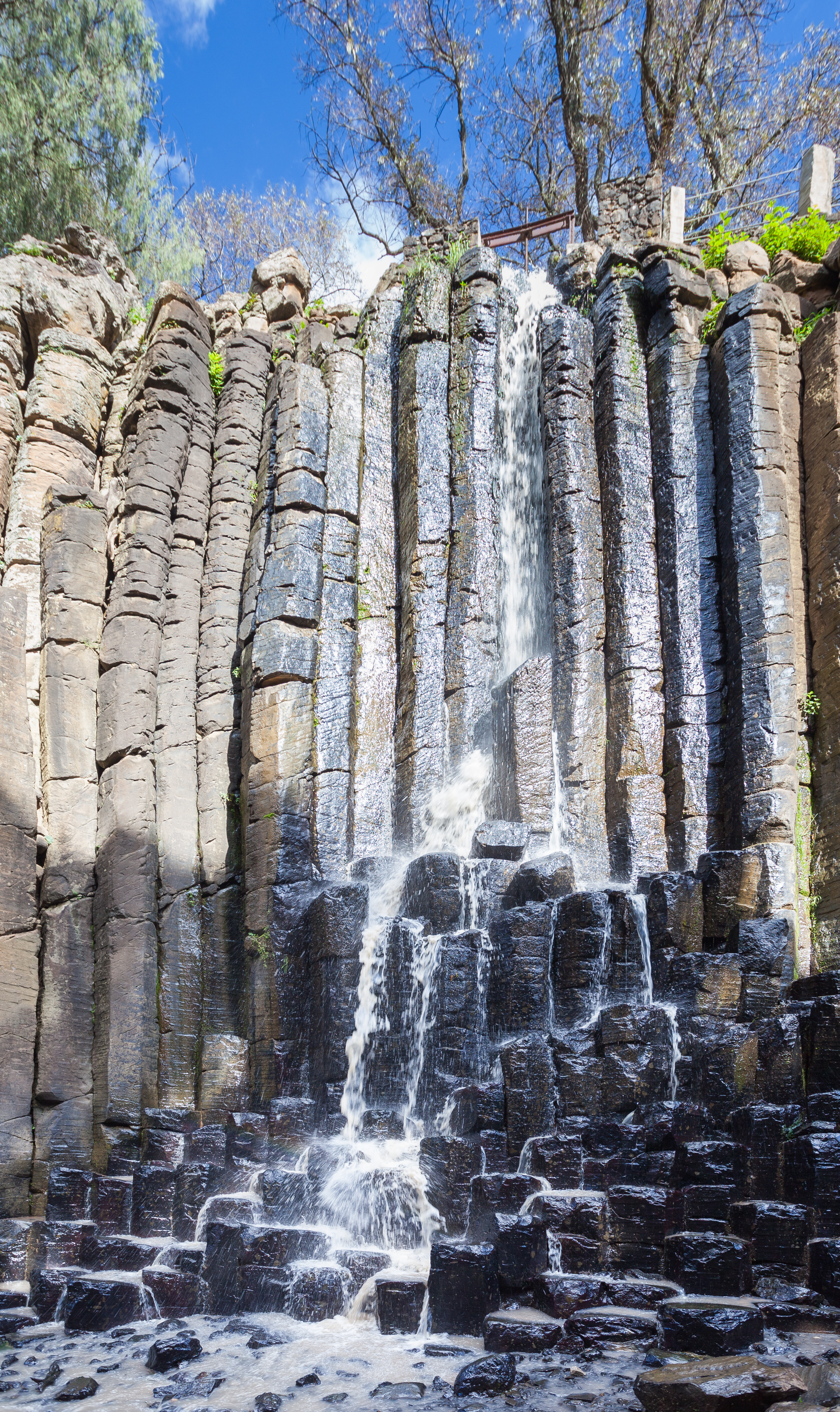 Basaltic Prisms, Huasca de Ocampo, Hidalgo, Mexico